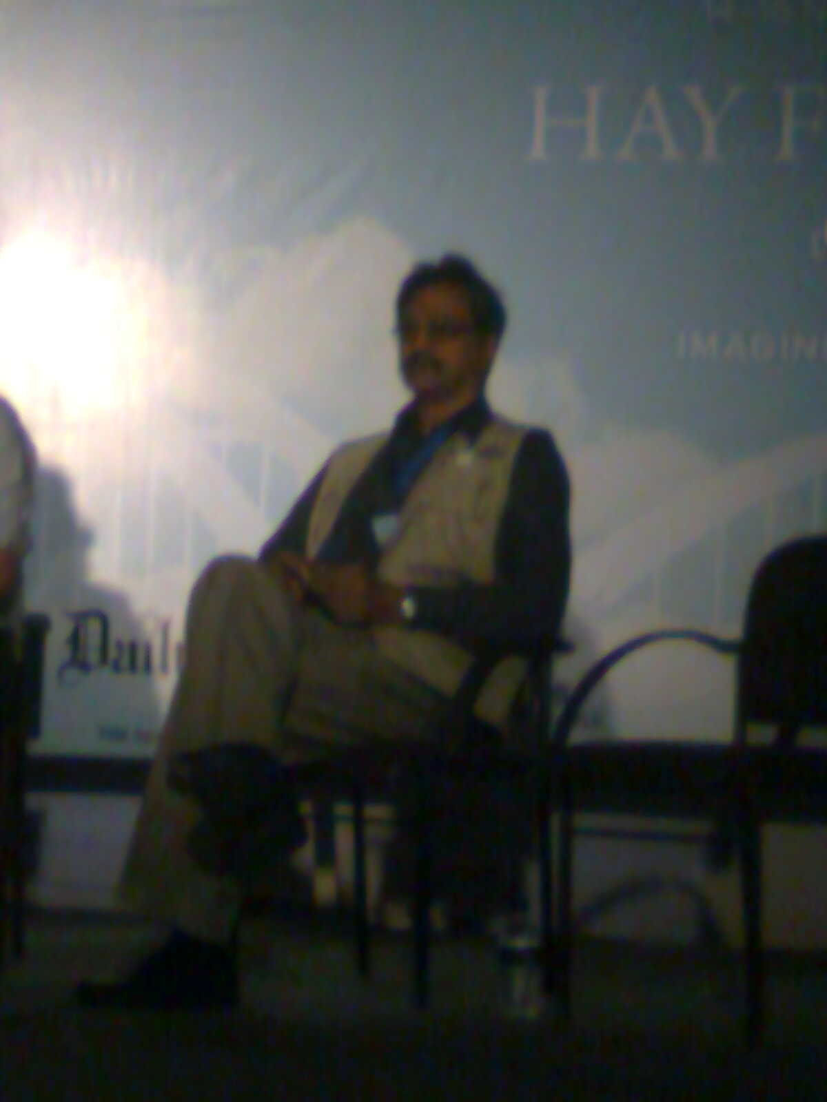 Kaiser Haq at Bangla Academy, Dhaka on 15 November 2013.